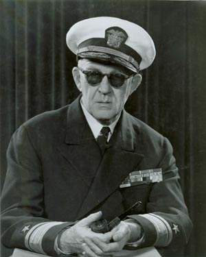 Director John Ford, who was also a Rear Admiral in the Navy Reserve